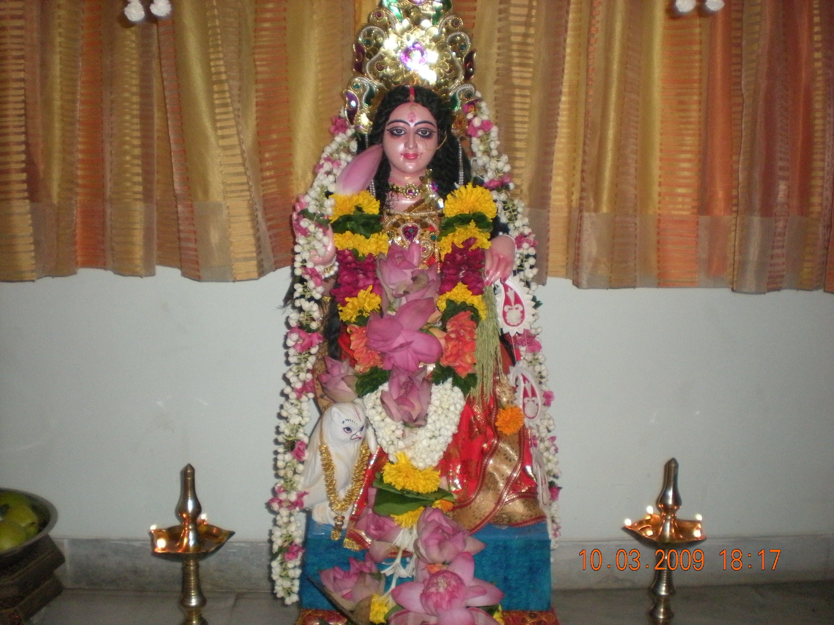 lakshmi puja